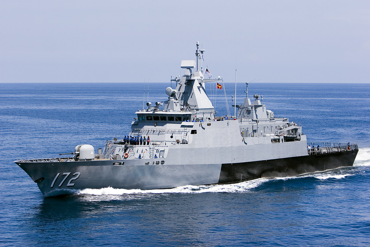 Up close and personal with a Royal Malaysian Navy ship, the "Pahang".